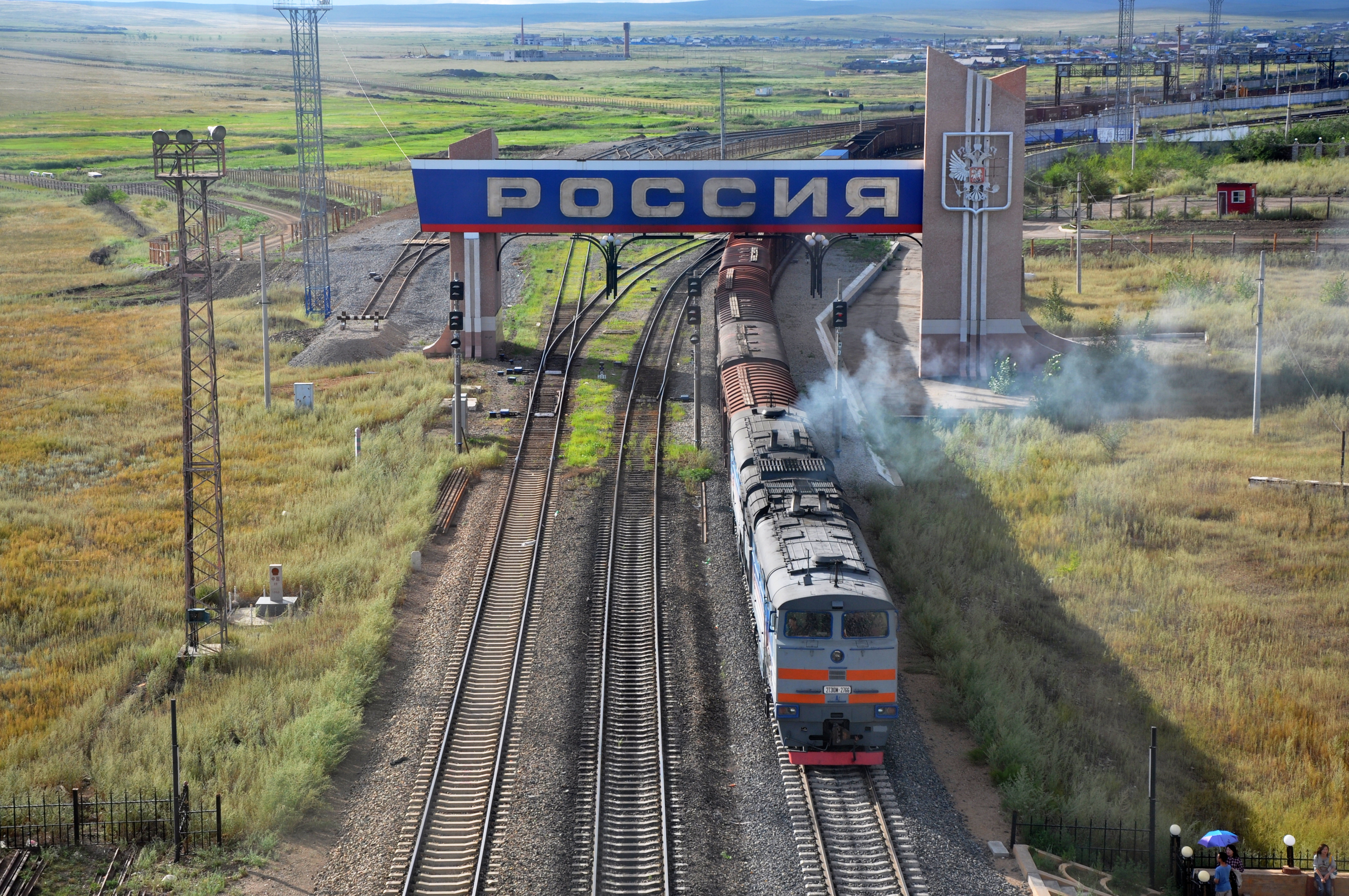 Russian diesel locomotive 2TE10M-2766 with freight train from Russia to Manzhouli, China